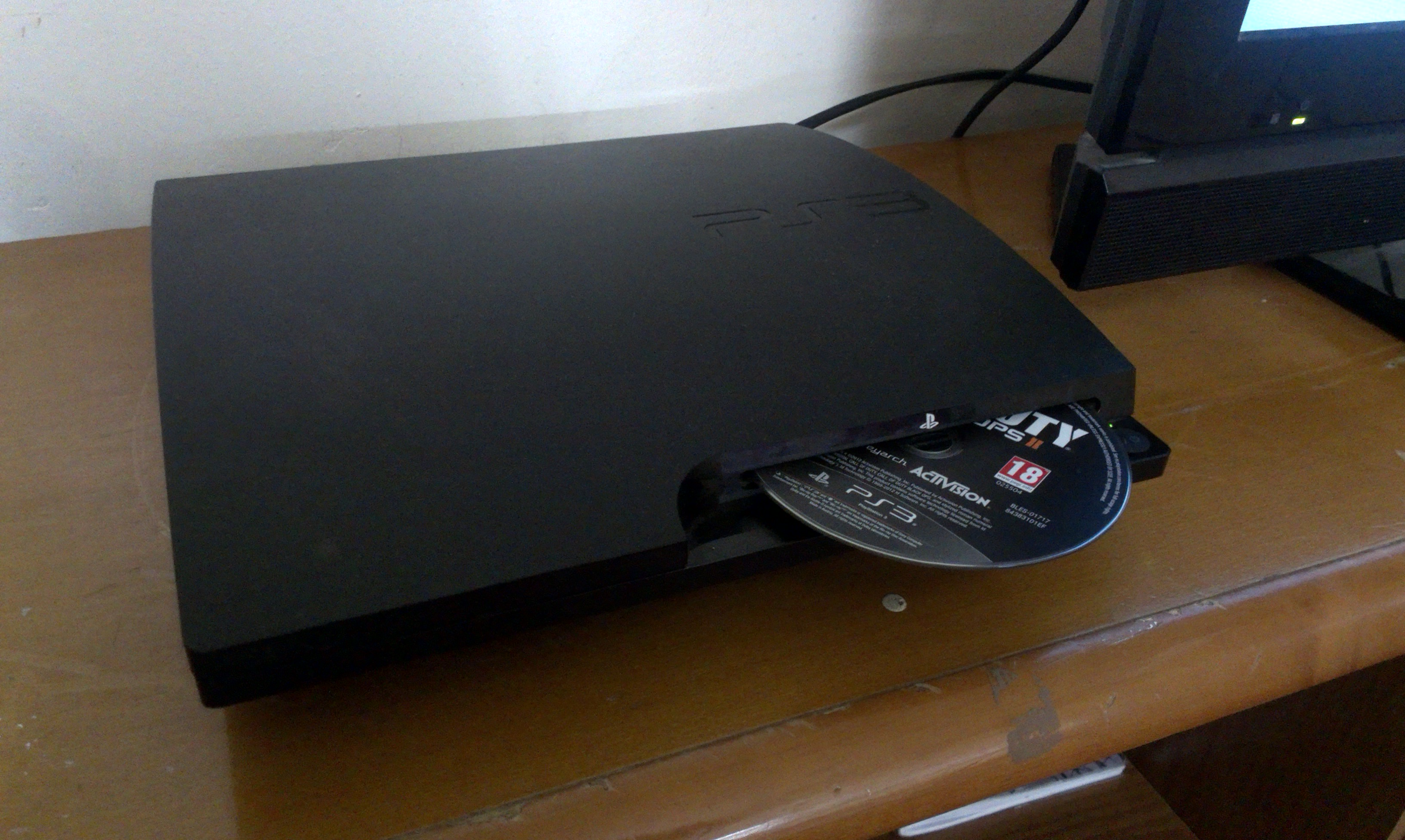 A PlayStation 3 320GB Model showing a Black Ops II disc. PS3 Slim model has a sliding motor disc.